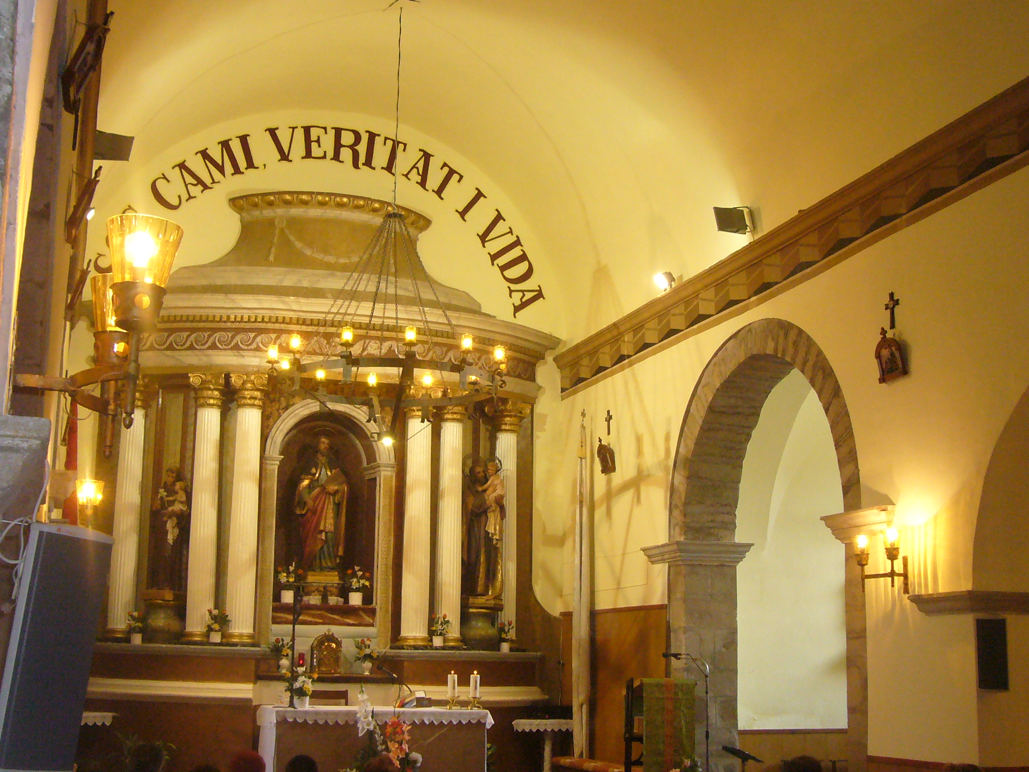 Montclar d'Urgell-Church of Sant Jaume